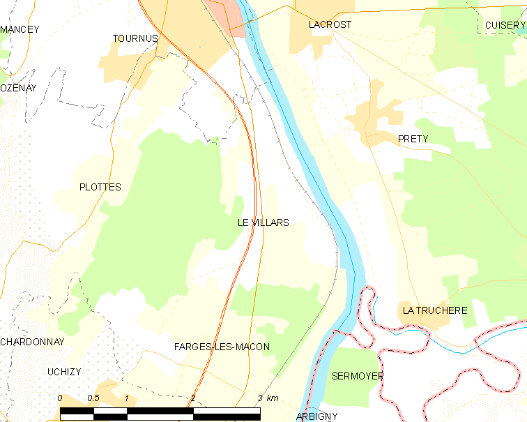 Map of French municipality